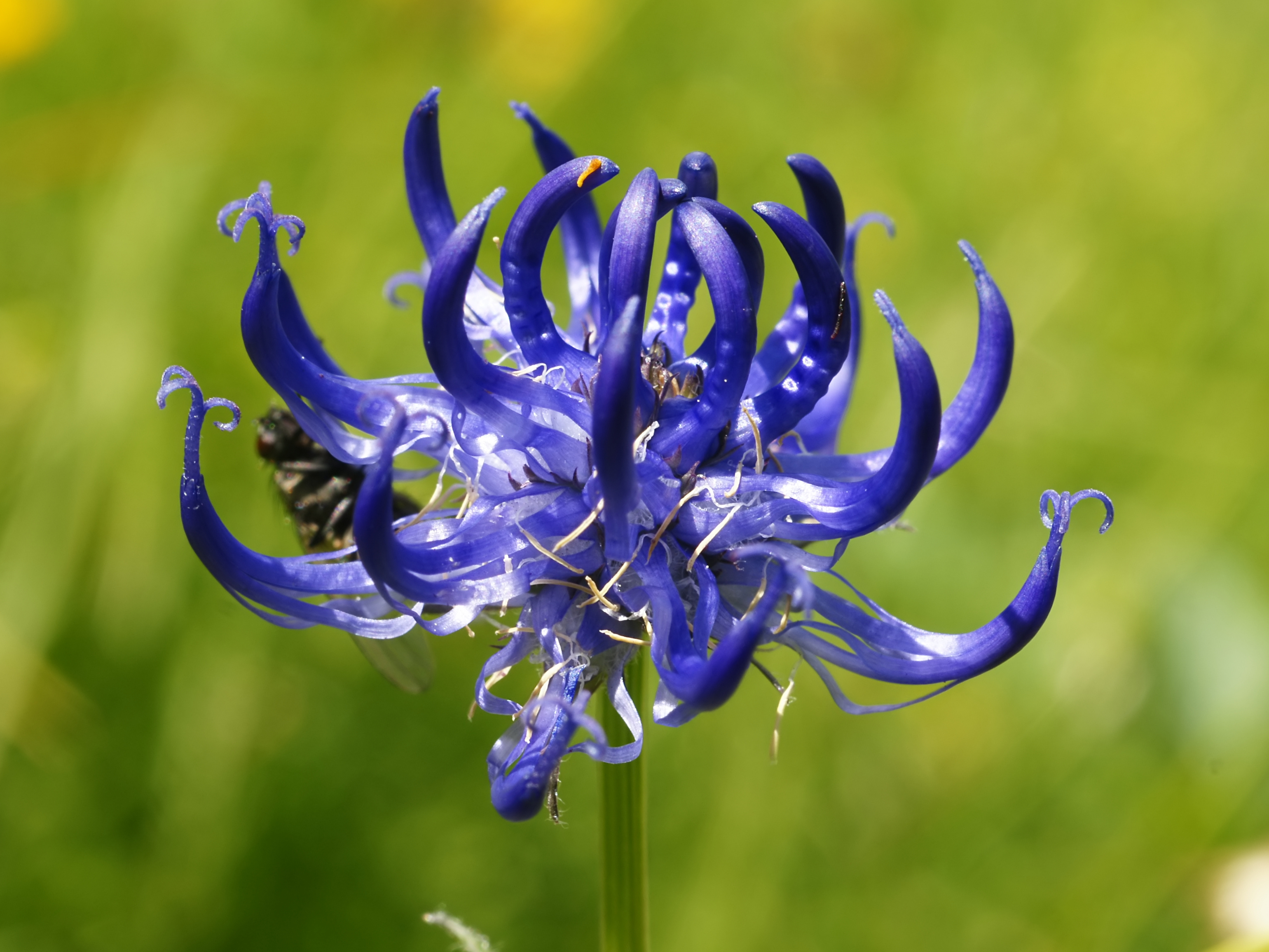 Round-headed Rampion close to Moosalp, Wallis, Switzerland